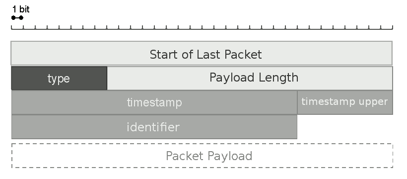 FLV Packet Structure Diagram